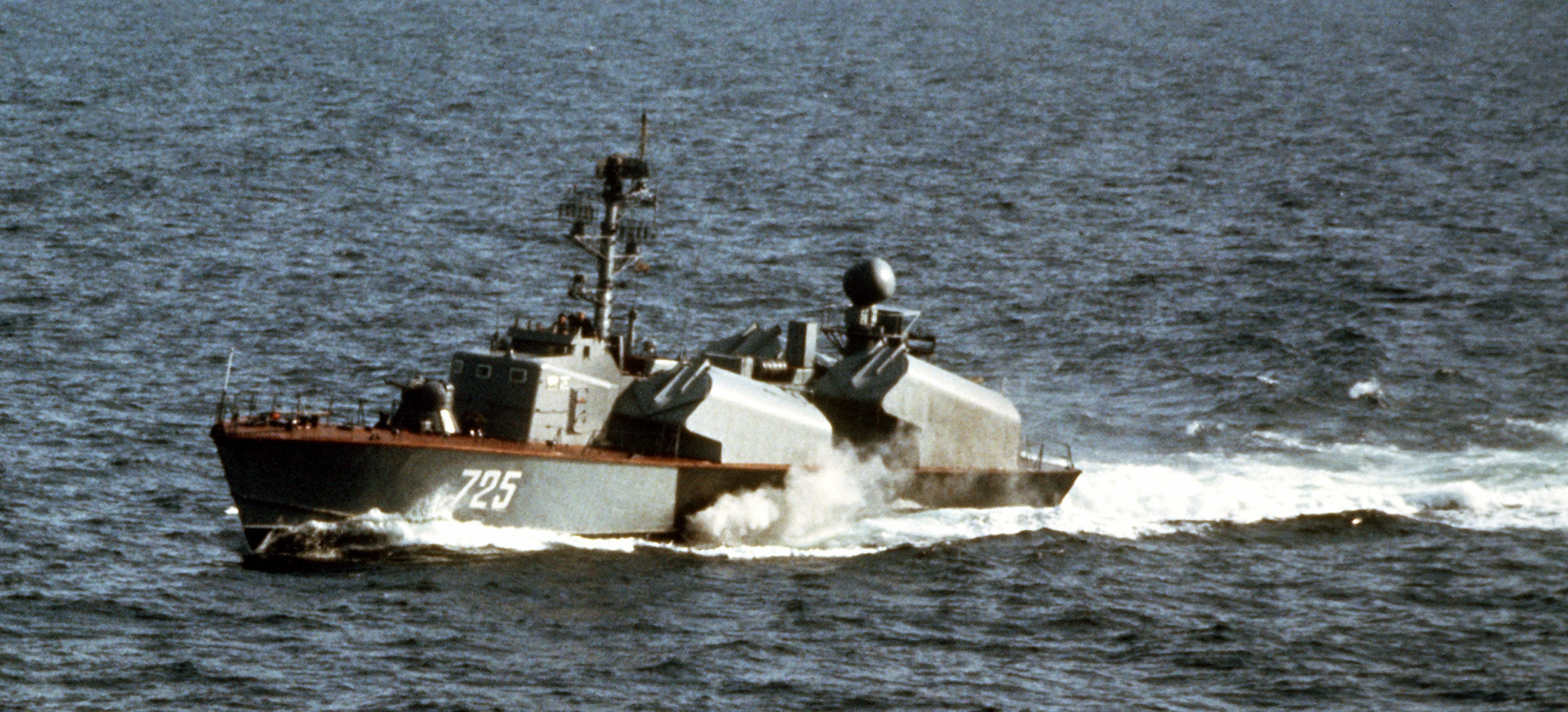 A port bow view of a Soviet Osa I Class fast attack craft-missile ship underway.